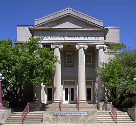 Dingeldine Music Center at Bradley University. Category:Bradley University Category:Images of Peoria, Illinois